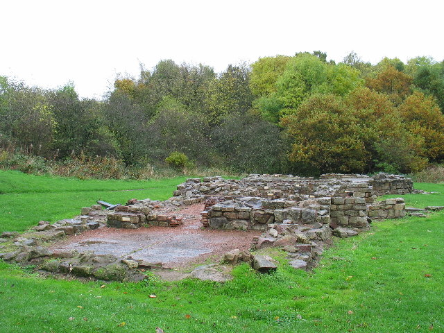 Roman Bath House. Site of Roman Bath house on the east side of Strathclyde Loch, Lanarkshire.